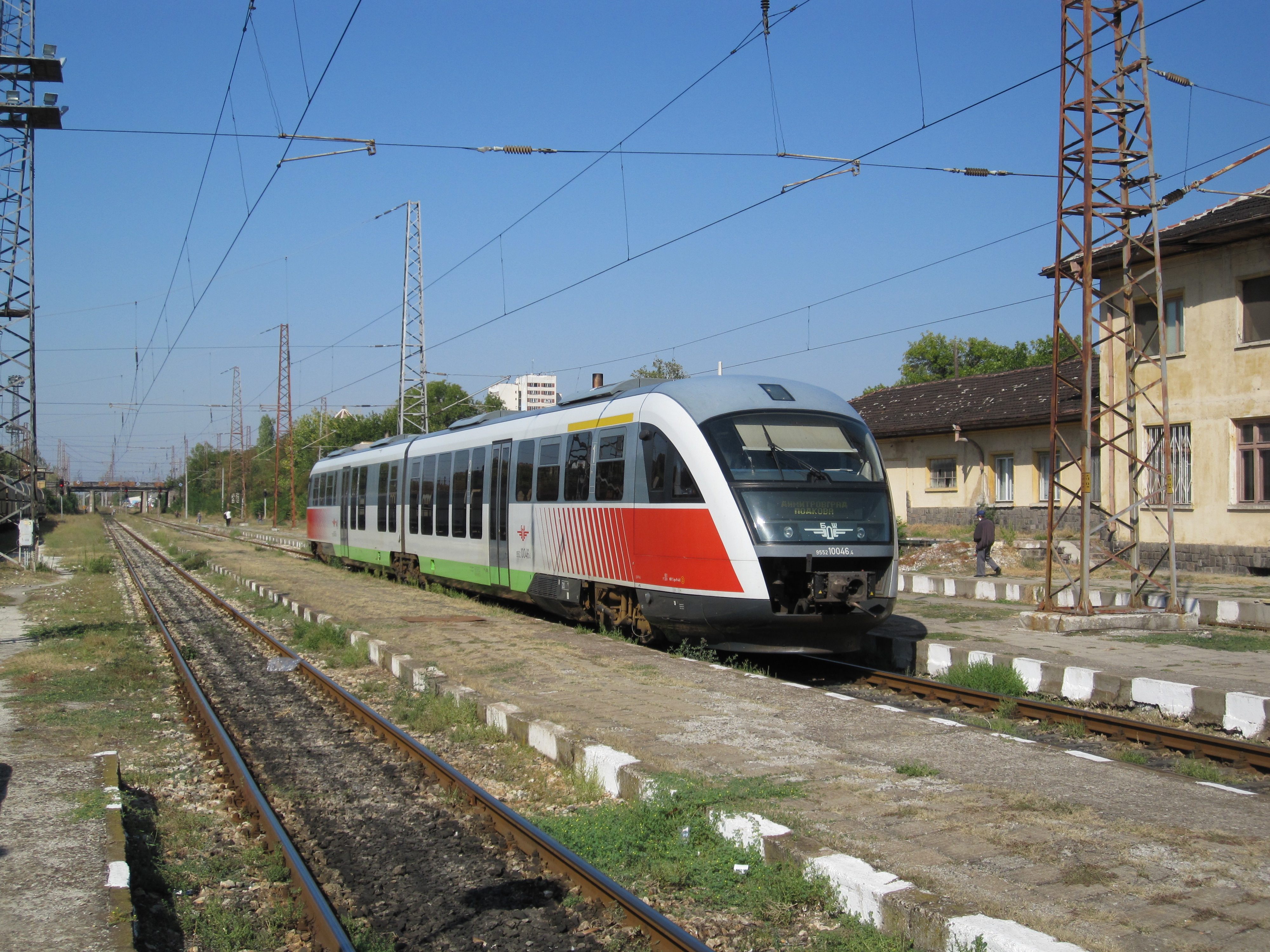 One of the lovcations in Bulgaria which took on an allocation of the Siemens Desiro DMUs is Dimitrovgrad. These are allocated to work services on the Podkova branch. Unreliability of these sets has already been reported and some 6 months after my visit in September 2012 things have not improved. Thanks to a knowledgable contact, I was informed shortly before my visit that services on the Podkova branch had been cancelled and replaced by buses due to a shortage of DMUs. Due to short turnaround times and some stations not equipped with run round facilities, loco hauled replacements were not a viable option. However despite last minute re-planning (as I had pre-booked hotel accommodation at the last big town before the end of the line, Momchilgrad) I decided to omit the branch. However, it appears enough DMUs were found by the time I visited Dimitrovgrad on 28 September 2012. Seen between duties on 28 September 2012 is 2-car set 10045 and 10046.